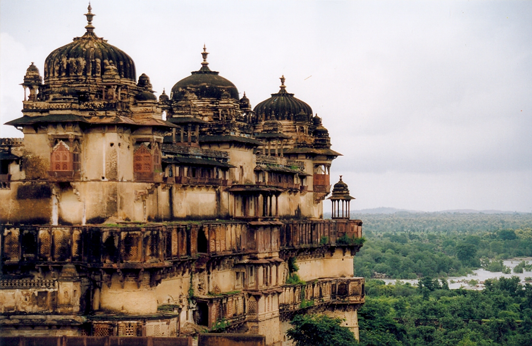 Jahangir Mahal, Orchha Palace, Madhya Pradesh, India.